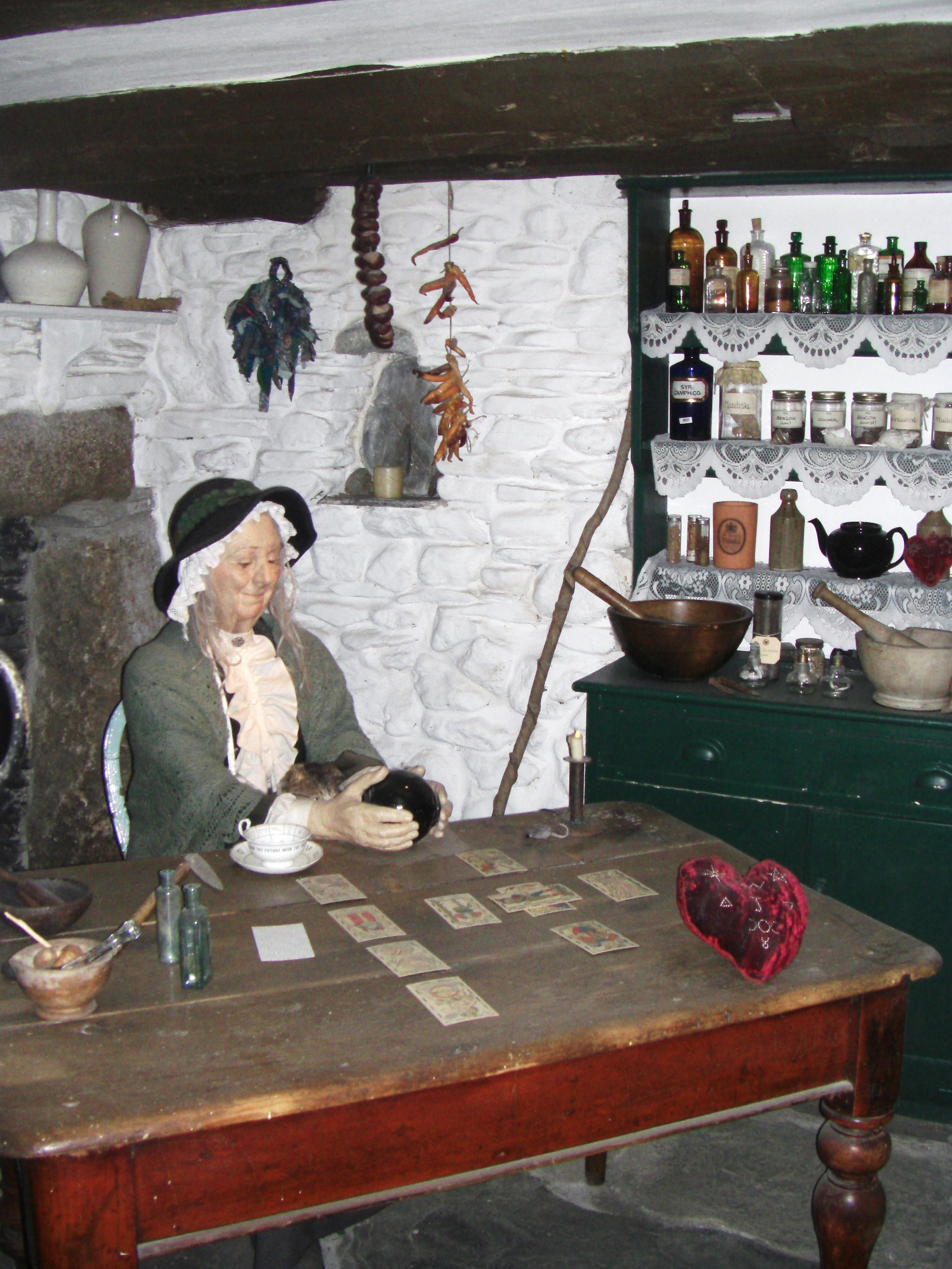 A photograph of the cunning woman in her house, at the Museum of Witchcraft.